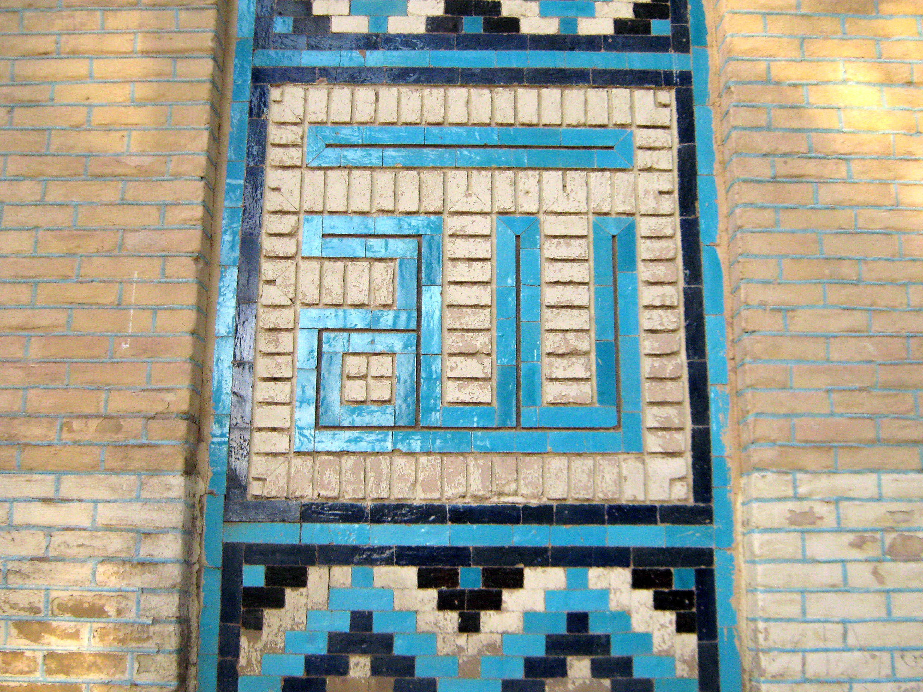 Tiling of South wall of Mohammad Al Mahruq Mosque - name of prophet God in persian masonry writing- Nishapur 01